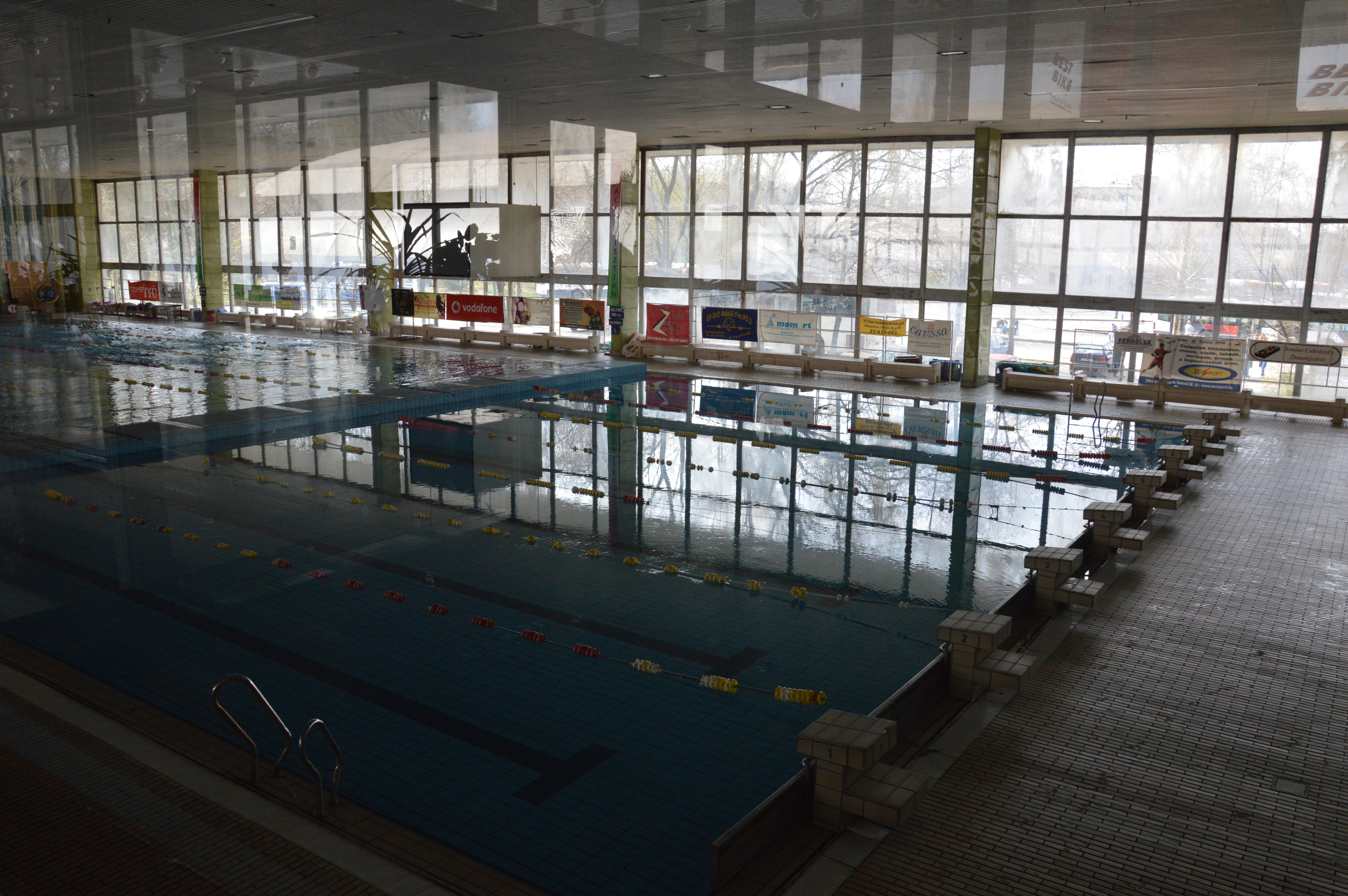 Interior of Fabó Éva Sport Pool in Dunaújváros. Built in 1977. Architect: Imre Péchy